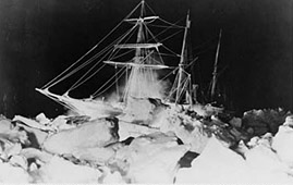 A night picture of the Endurance. Ship at night with ice in foreground during Shackleton's Imperial Trans-Antarctic Expedition.